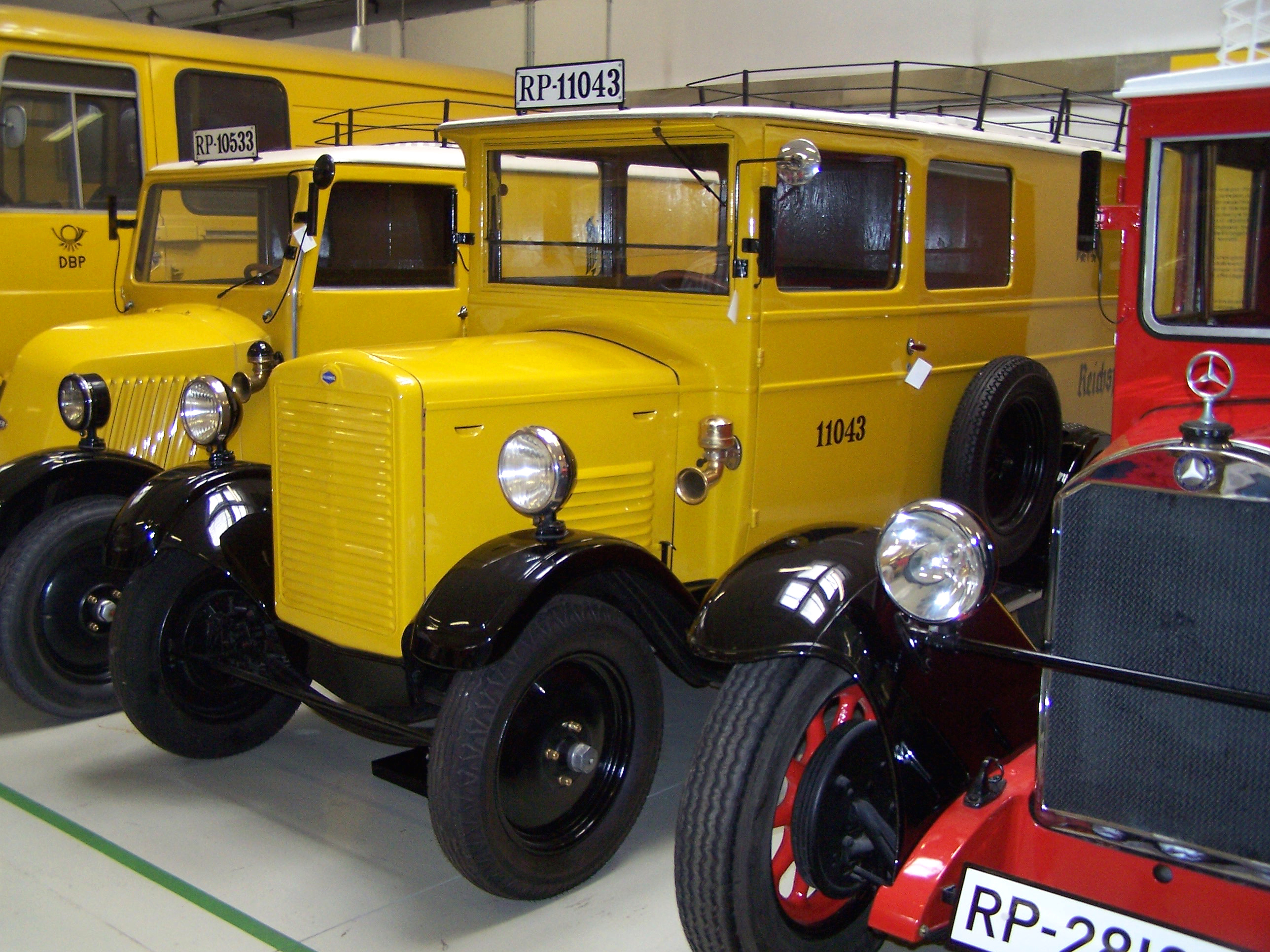 Phänomen 4RL/K box wagon (countryside post car) of the German Reichspost, built 1930, engine power 16 hp, max. speed 45 km/h, empty load 1195 kg, payload 750 kg, in the depot of the Museum for communication Frankfurt am Main in Heusenstamm